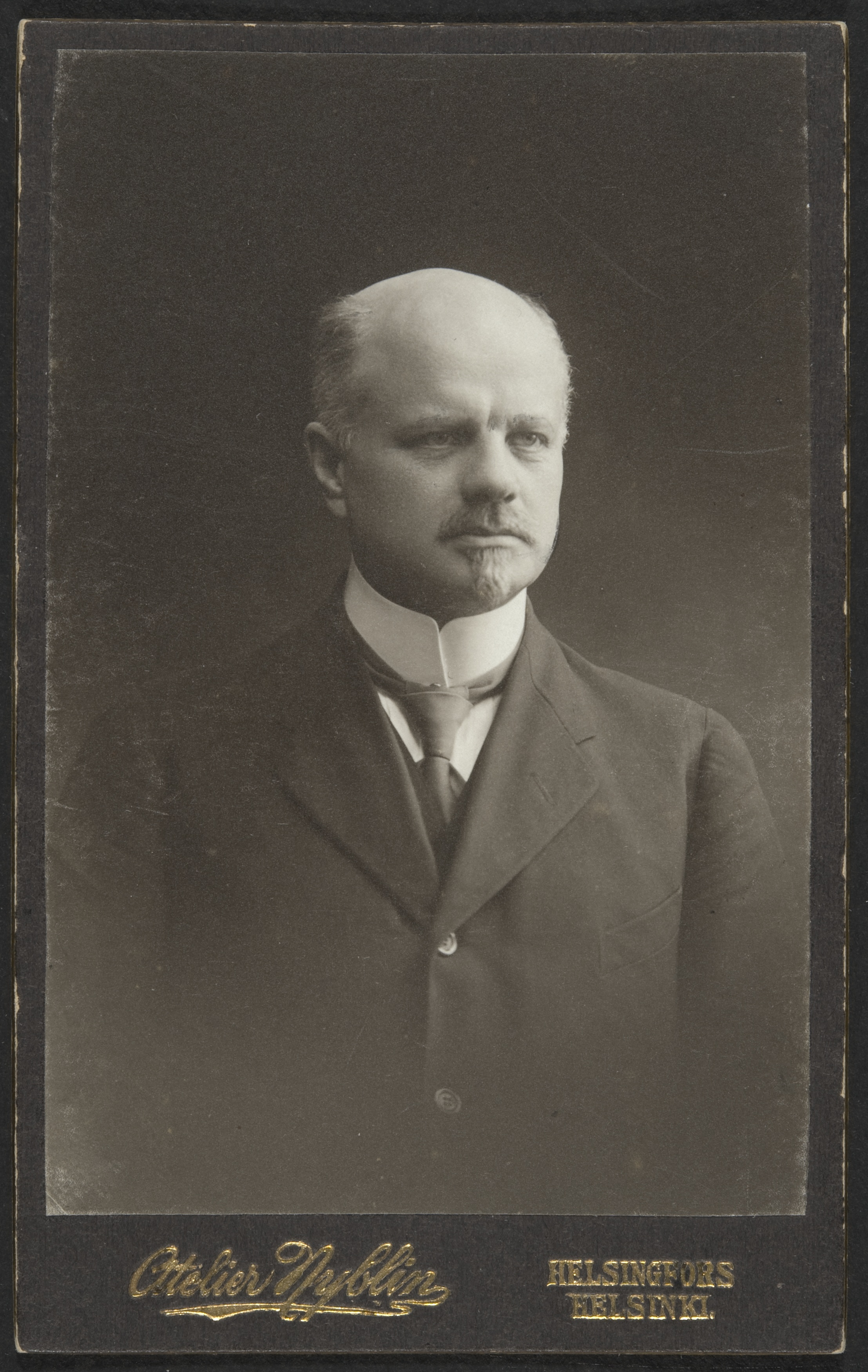 Christian Sibelius before 1920.